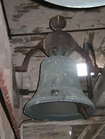 Cloche louison avec joug typique "demoiselle de louison" pour volée tournante